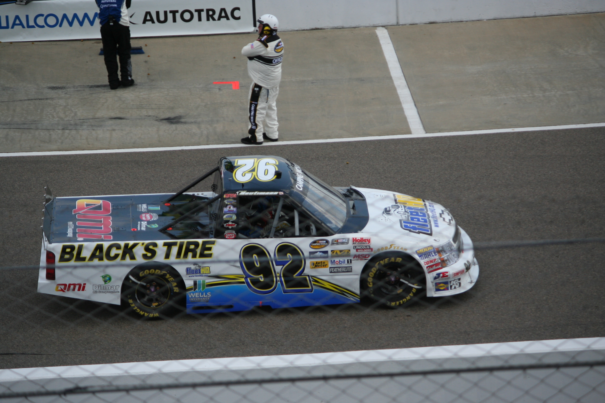 David Reutimann on pit road at Rockingham Speedway during the 2012 Good Sam Carolina 200.